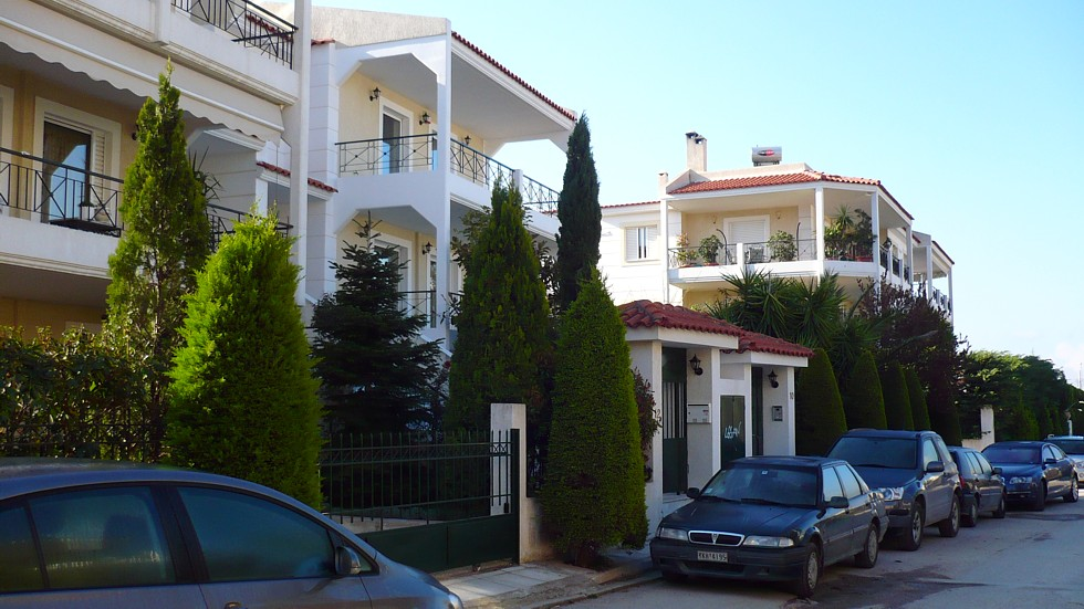 The picture depicts the architecture of the Melinas Merkouri Street at Patima, Halandri, Athens.